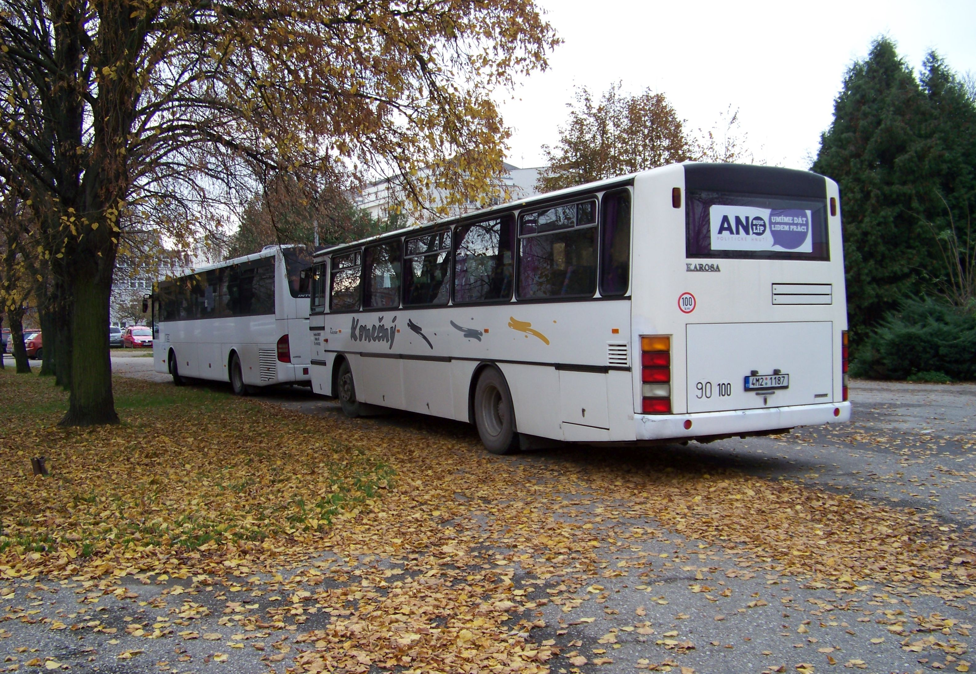 Olomouc-Nová Ulice, Olomouc District, Olomouc Region, Czech Republic. Legionářská street, buses